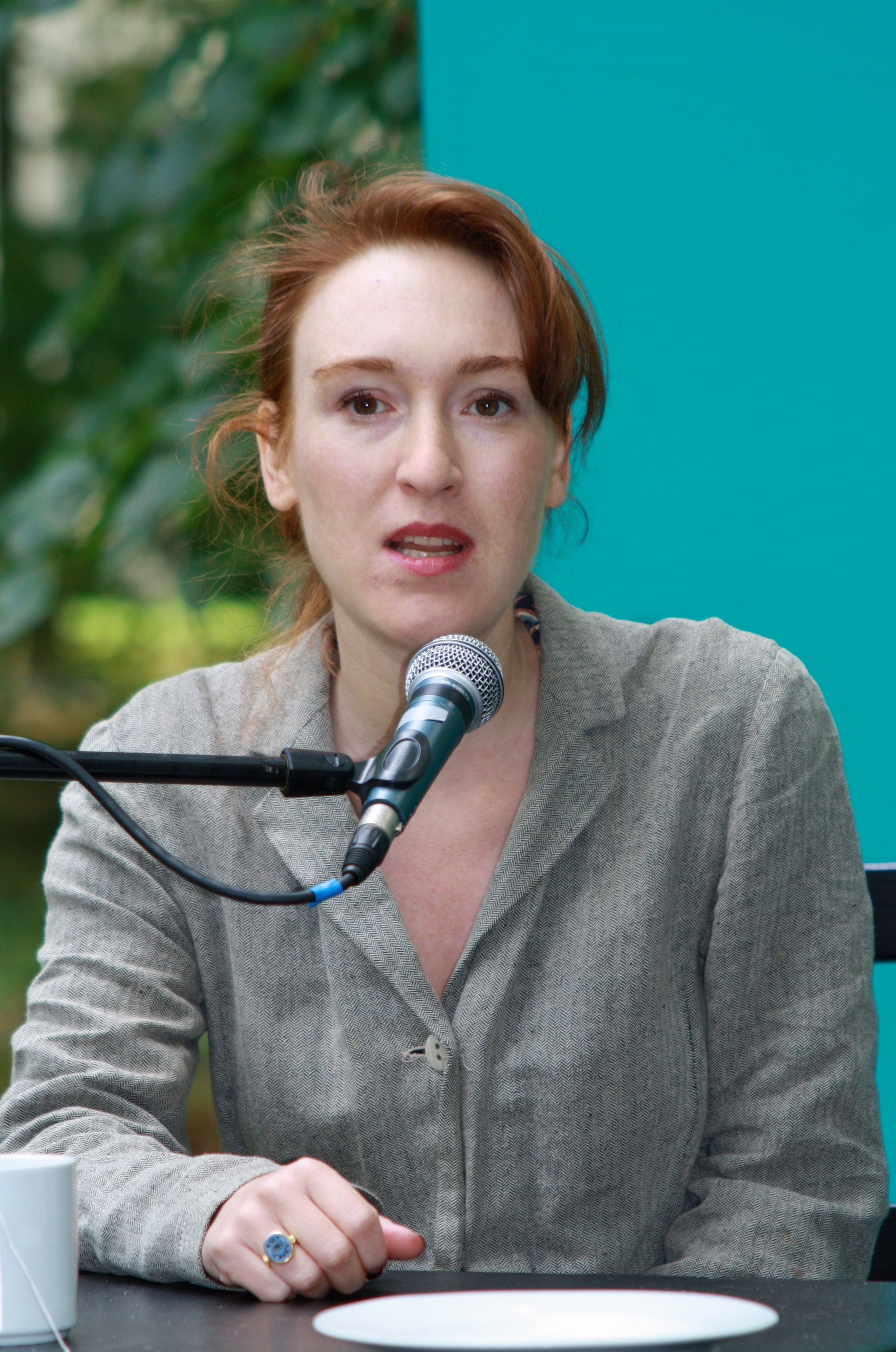 The German author Nora Bossong